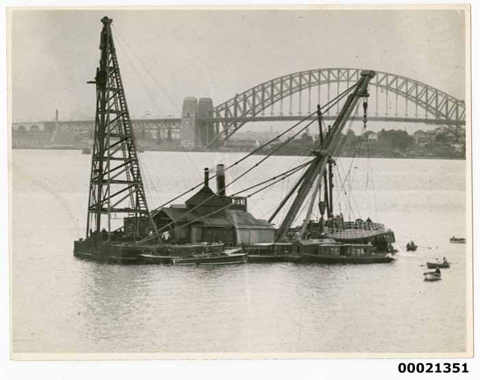 On 13 February 1938 a crowd of spectators onboard the ferry RODNEY were farewelling the USS LOUISVILLE in Sydney Harbour. It was top heavy and as passengers ran to one side of the ferry it capsized off Bradleys Head. Over 200 people were onboard, and 19 people drowned, with LOUISVILLE participating in the rescue efforts. RODNEY was raised and renamed REGALIA. This photo is part of the Australian National Maritime Museum’s Samuel J. Hood Studio collection. Sam Hood (1872-1953) was a Sydney photographer with a passion for ships. His 60-year career spanned the romantic age of sail and two world wars. The photos in the collection were taken mainly in Sydney and Newcastle during the first half of the 20th century. The ANMM undertakes research and accepts public comments that enhance the information we hold about images in our collection. This record has been updated accordingly. Photographer: Samuel J. Hood Studio Collection Object no. 00021351